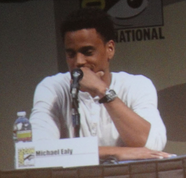 Michael Ealy at 2011 Comic-Con